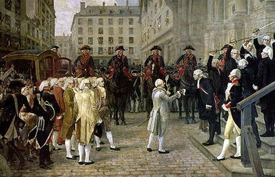 King Louis XVI greeted by Mayor Bailly ad Marquis La Fayette at the city hall in 1789 (particular of the fresco painted in 1891 by Jean-Paul Laurens).